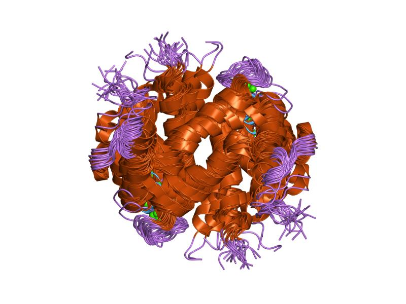 Cartoon representation of the molecular structure of protein registered with 1mwn code.